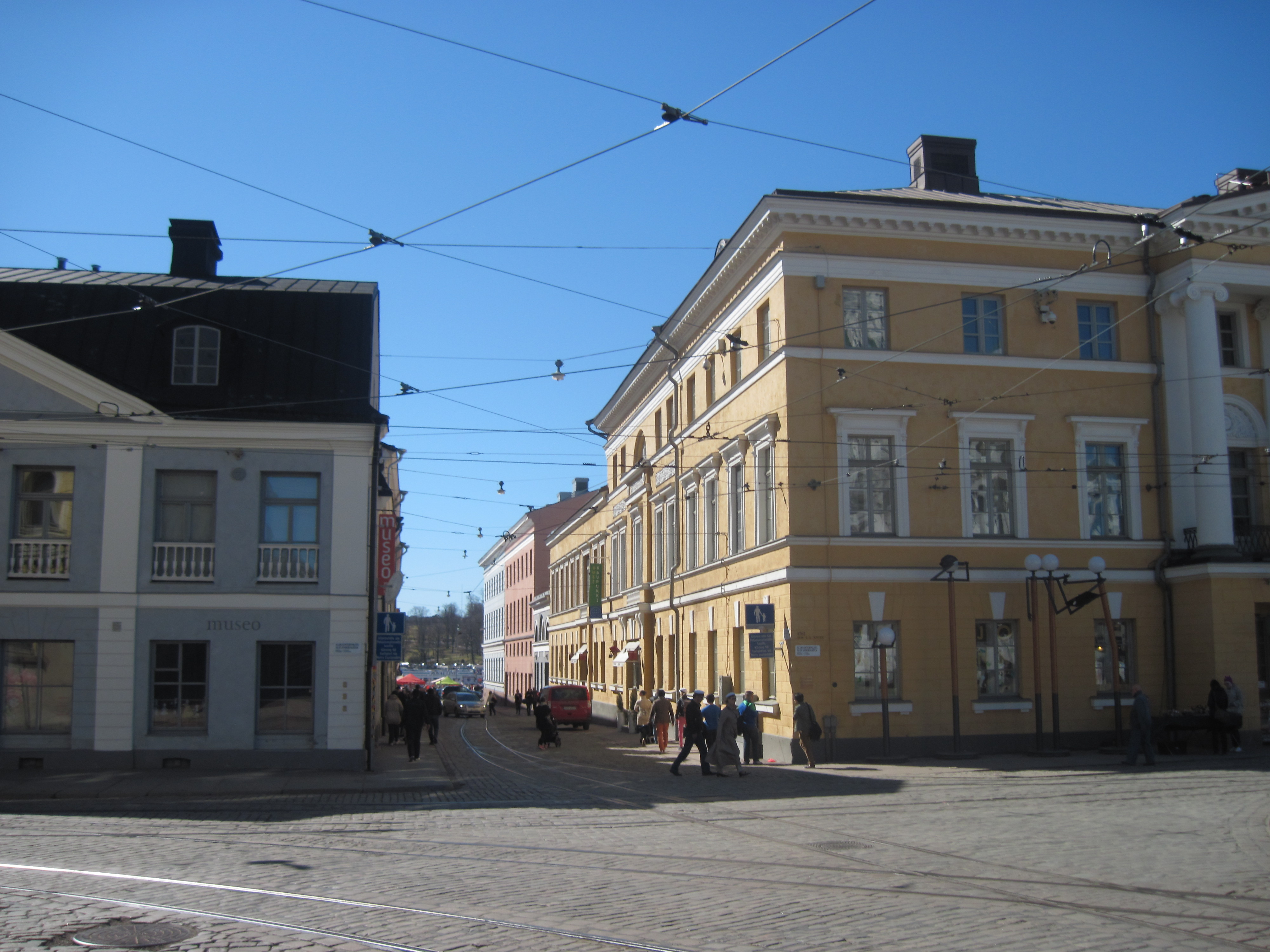 Katariinankatu in Helsinki, seen from North (Senate Square)